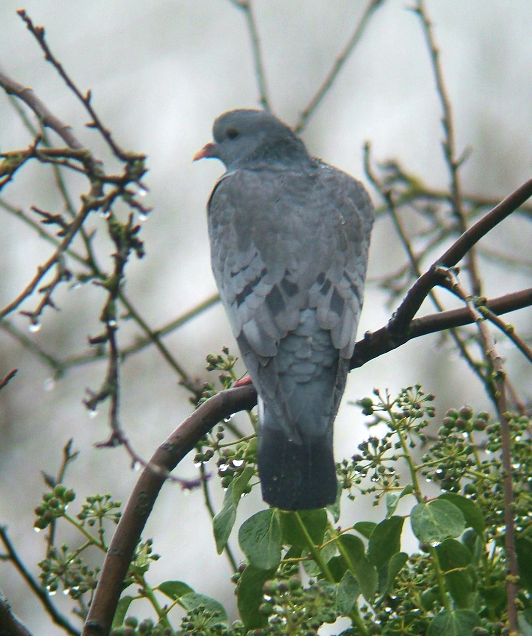 Stock Dove Columba oenas, Newcastle, Northumberland, UK